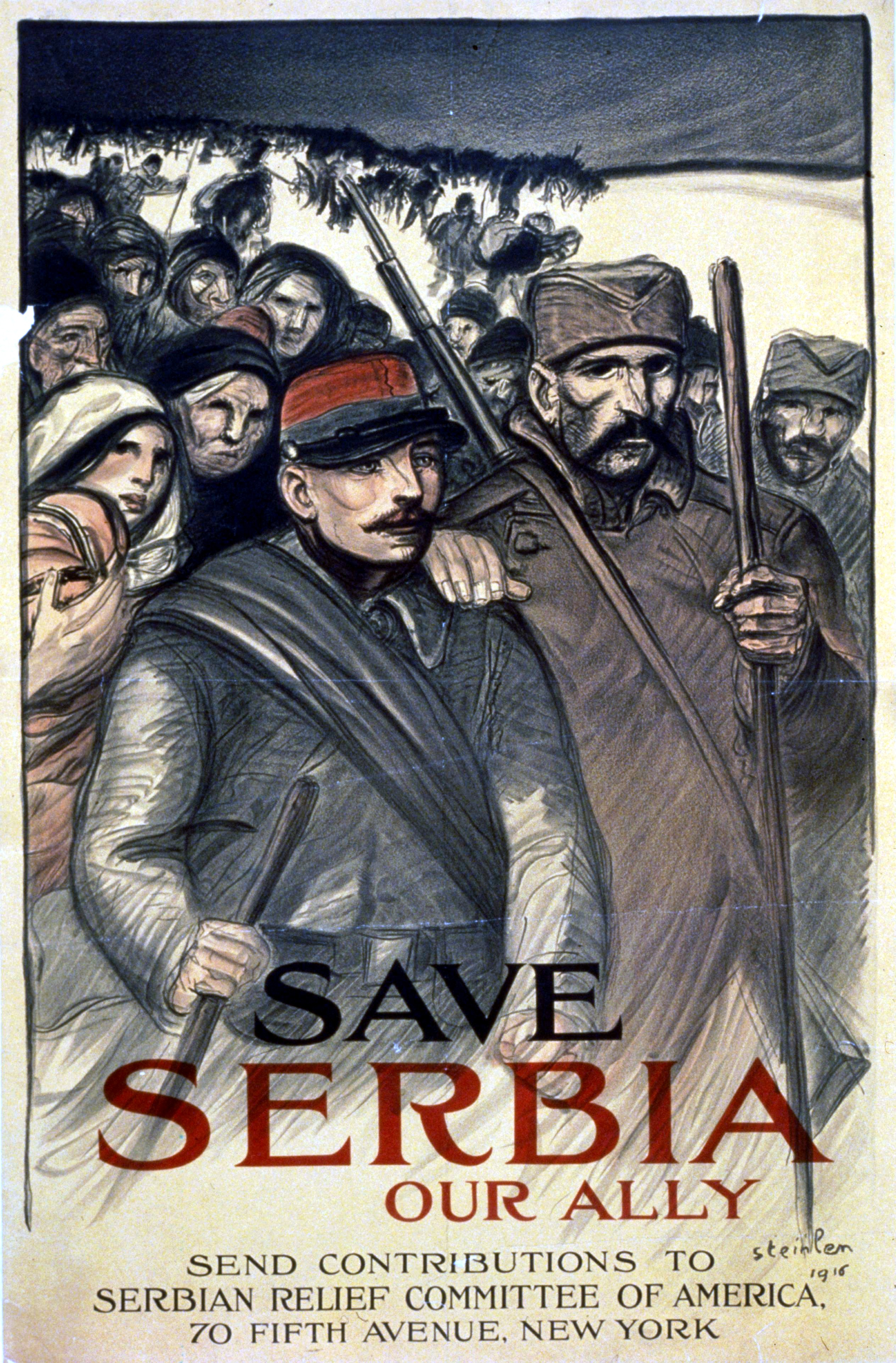 WORLD WAR I Théophile-Alexandre Steinlen POSTER SAVE SERBIA (1915)